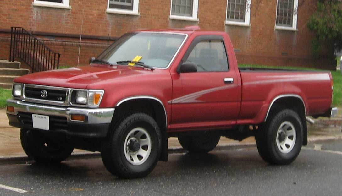 1993-1994 Toyota Pickup photographed in College Park, Maryland, USA.